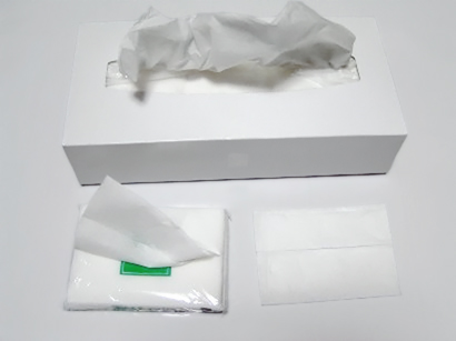 Boxes of Facial Tissue